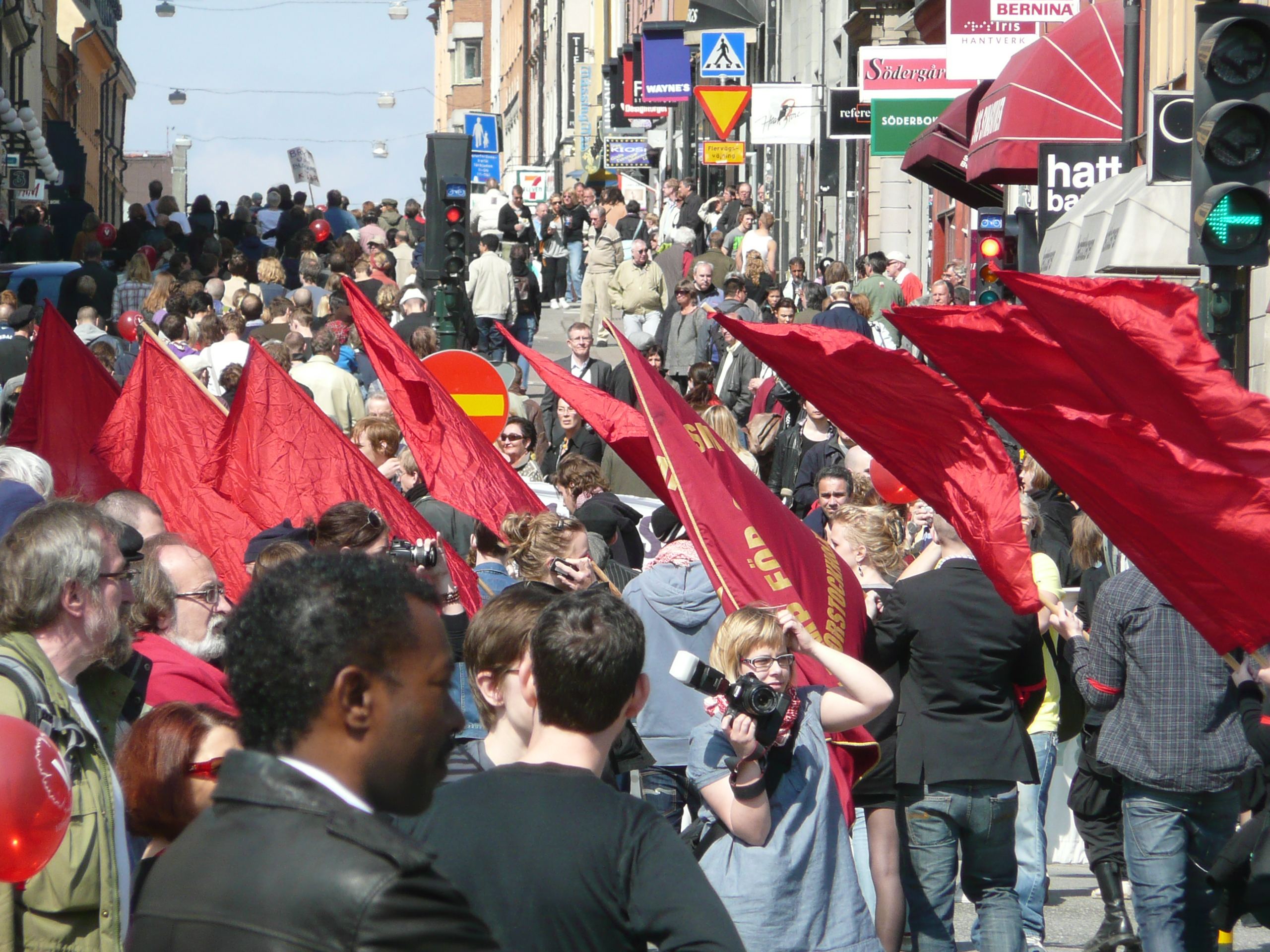 May Day demonstration in Stockholm 2008